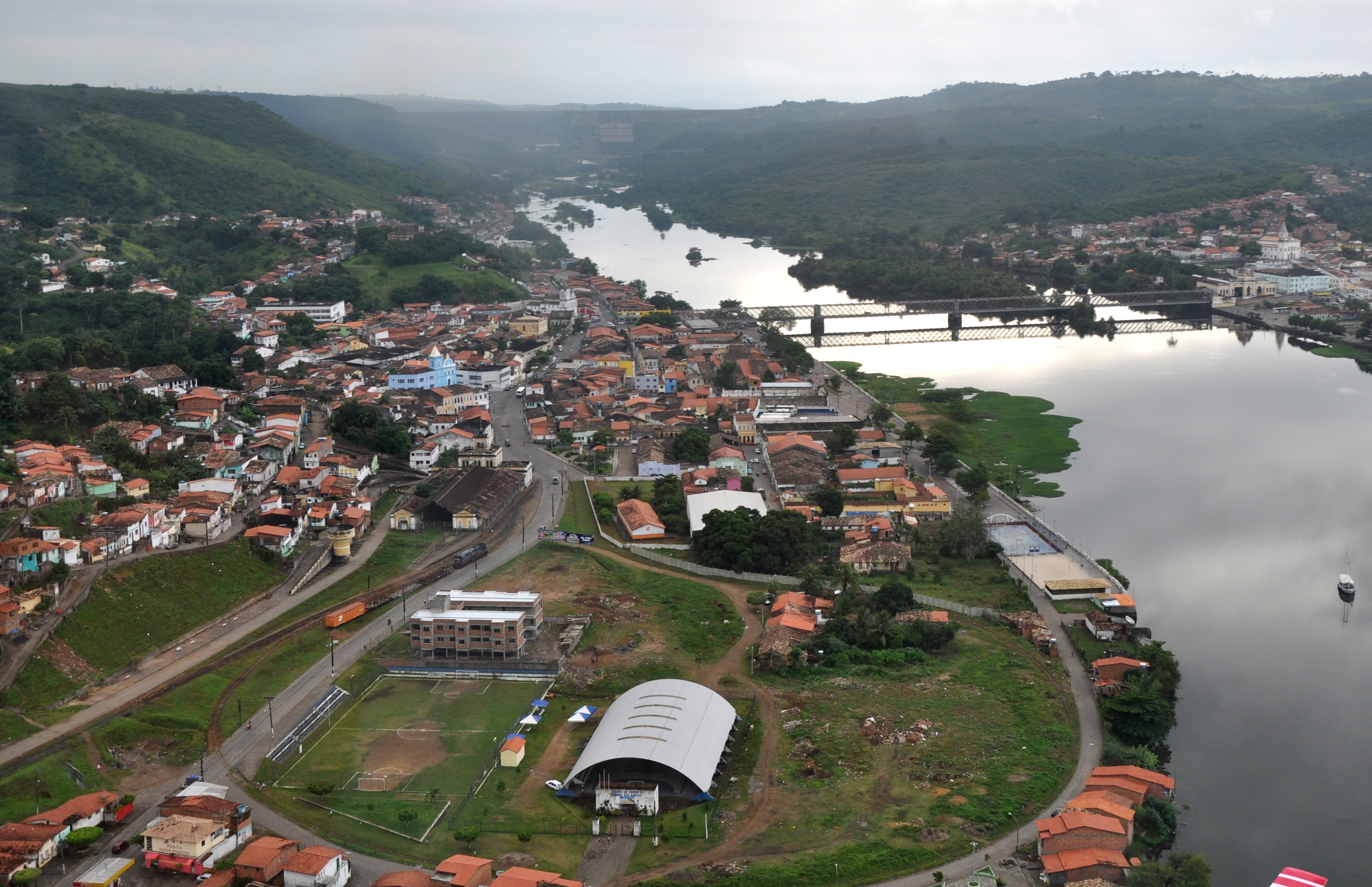 Aerial view of the town of São Félix (Bahia, Brazil)